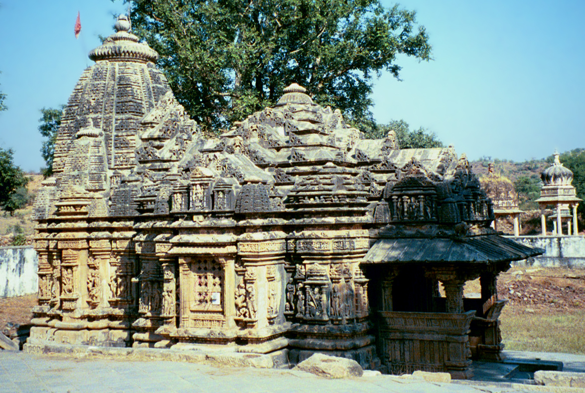 Ambika Mata is a Devi (goddess) temple in Jagat village, about 50 km southeast of Udaipur. The temple dates to 961 AD and is notable for its fine sculptures. Ambika, the principal image in the shrine, is a form of the mother goddess who is associated with Durga. The red flags seen in this photo mean that the temple is still being used for worship.